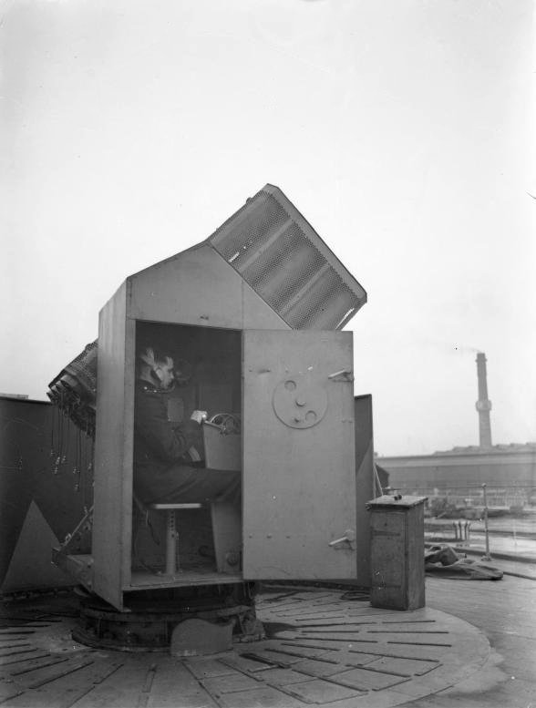 Photograph showing gunner in cabin of 7-inch Unrotated Projectile (i.e. rocket) mounting on quarterdeck of British battleship HMS King George V. While in drydock at Rosyth, Scotland. See also File:7-inch UP projectiles HMS King George V IW A 9451.jpg for men with projectiles.